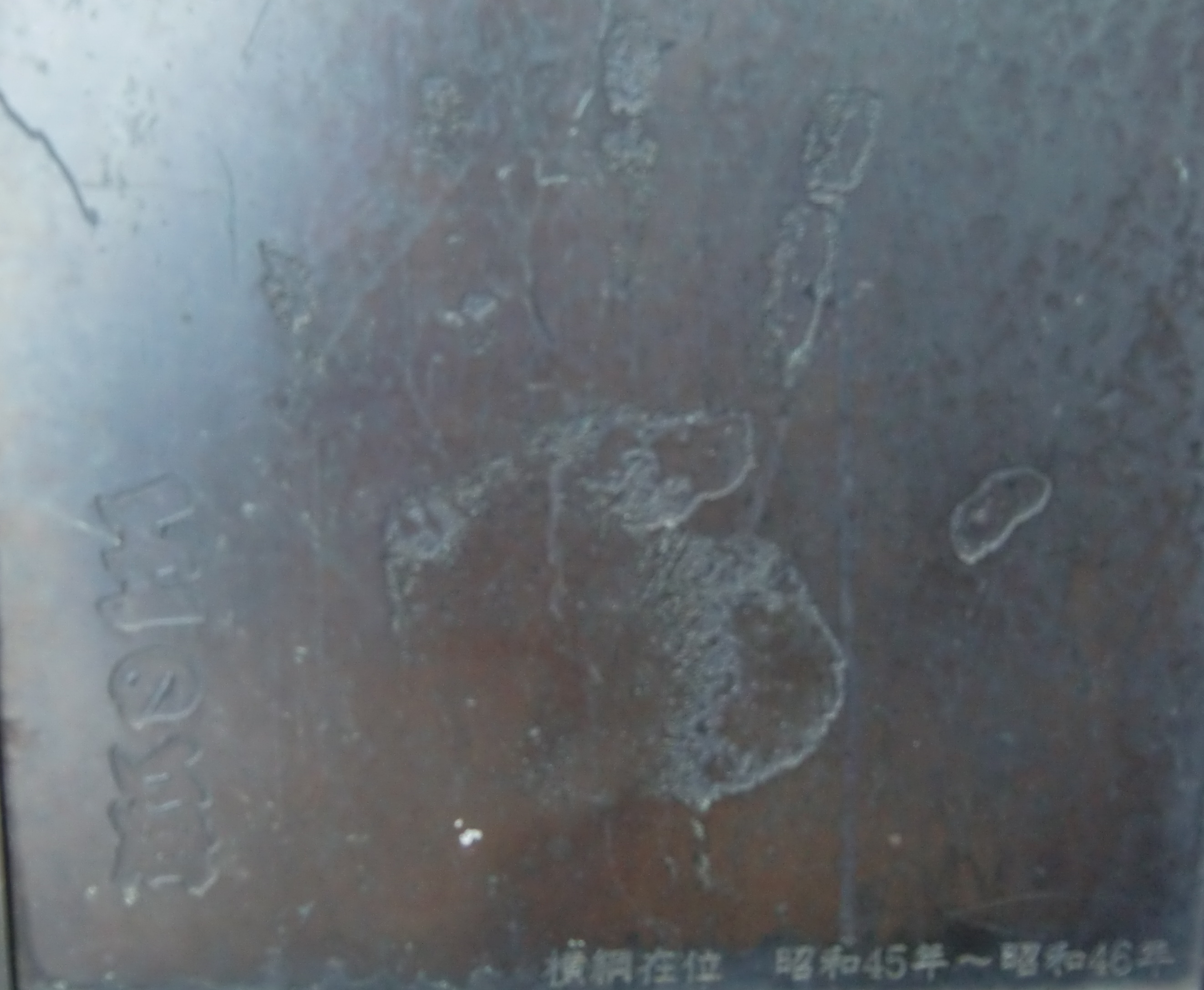 image taken from monument in Ryogoku, Tokyo